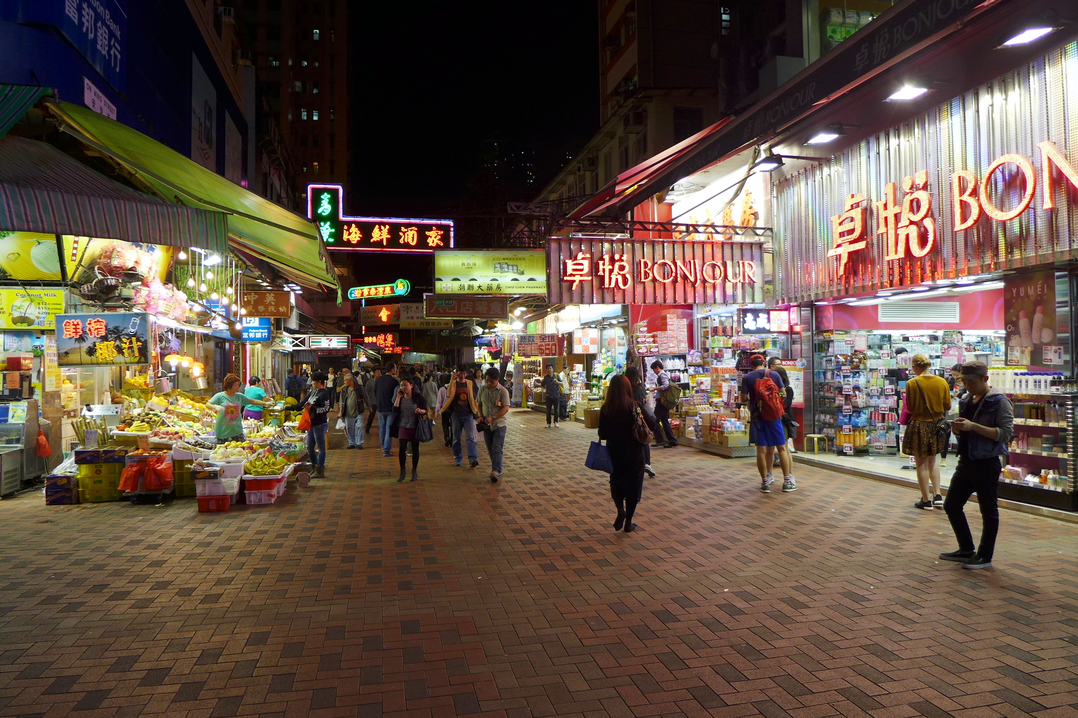 On Wing Street